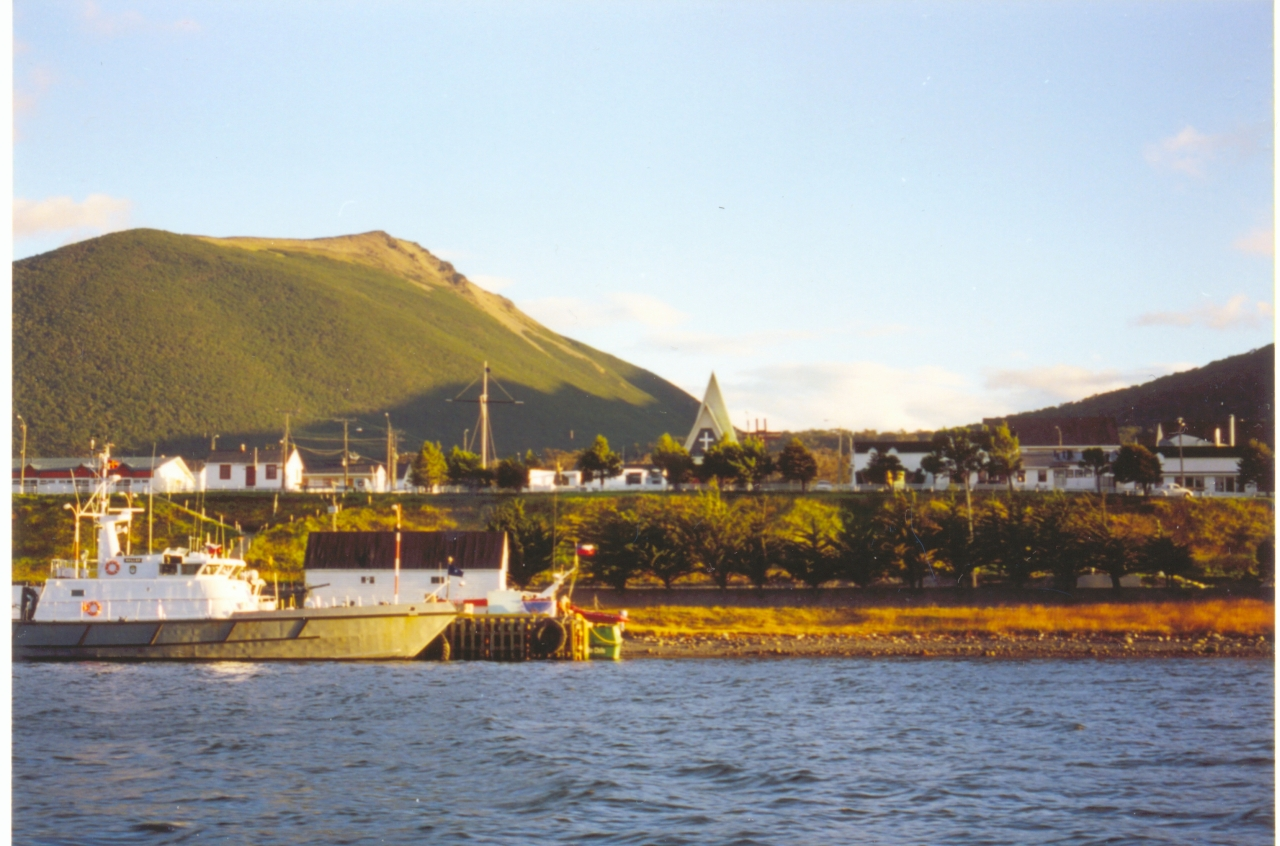 Picture published by the author Lyubomir Ivanov a.k.a. Apcbg.